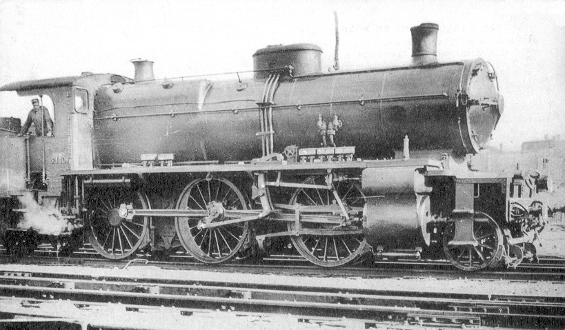 Locomotive 130 Nord C 3-1401